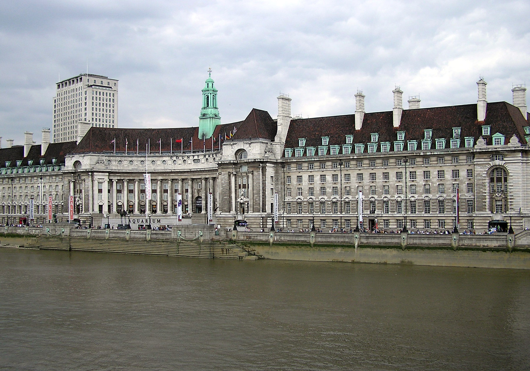 County Hall, London, England. Photographed by Adrian Pingstone in June 2005 and released to the public domain.